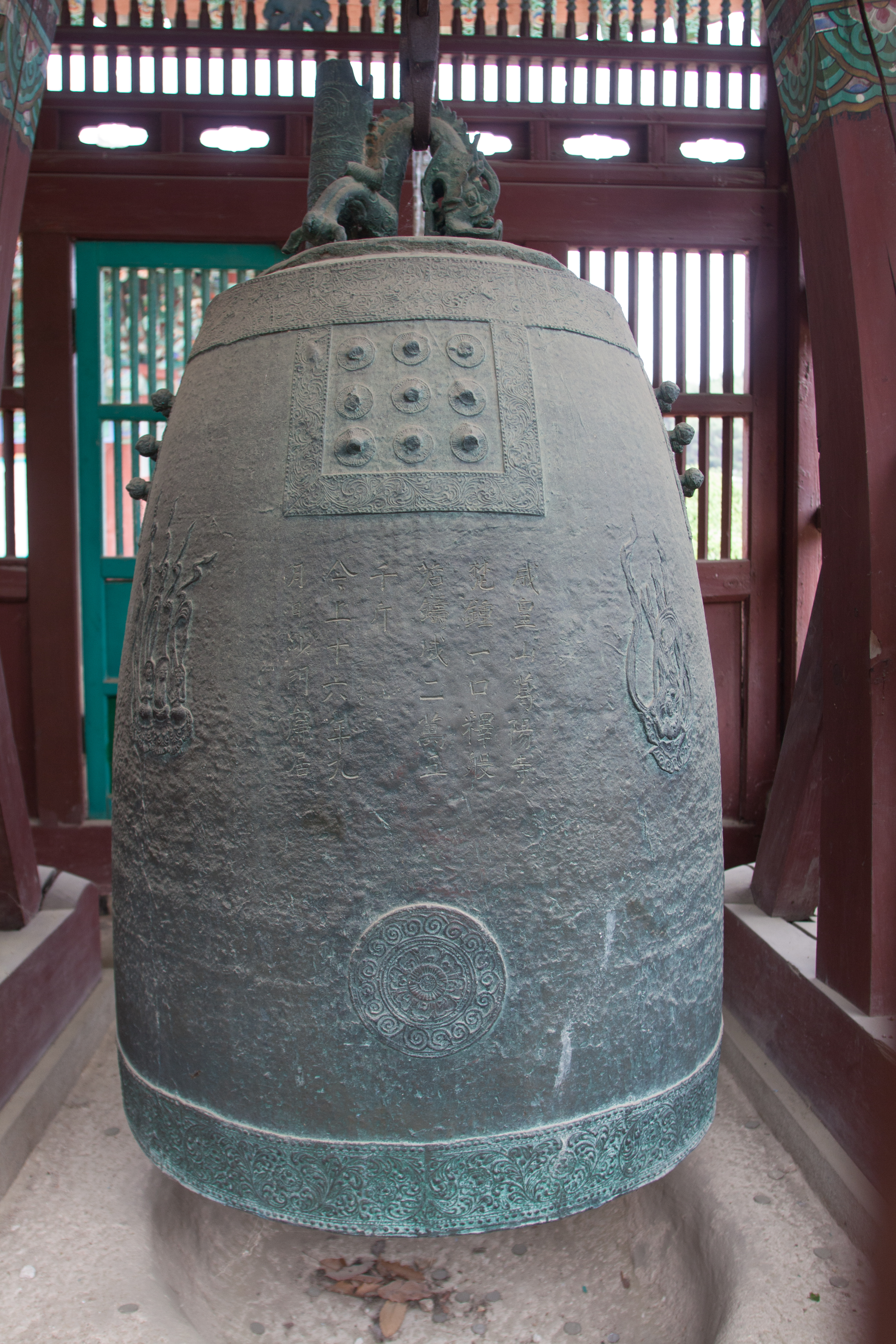 Beomjong (Dharma Bell); the Sacred bronze Bell of Yongjusa Temple, National Treasure No. 120 ; in Hwaseong, Korea.